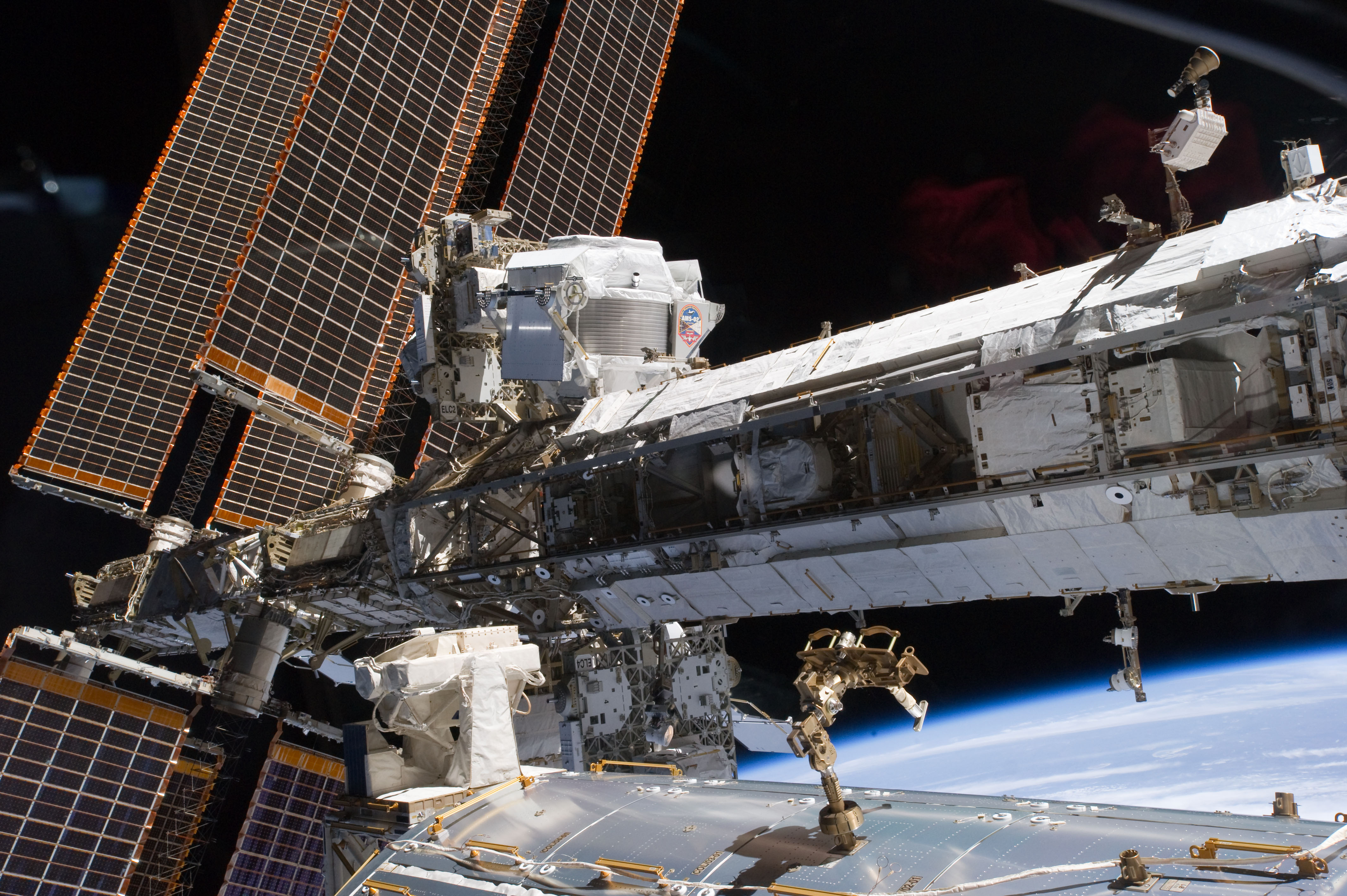 The starboard truss of the International Space Station is featured in this image photographed by an STS-134 crew member while space shuttle Endeavour remains docked with the station. The newly-installed Alpha Magnetic Spectrometer-2 (AMS) is visible at center left. The blackness of space and Earth's horizon provide the backdrop for the scene.